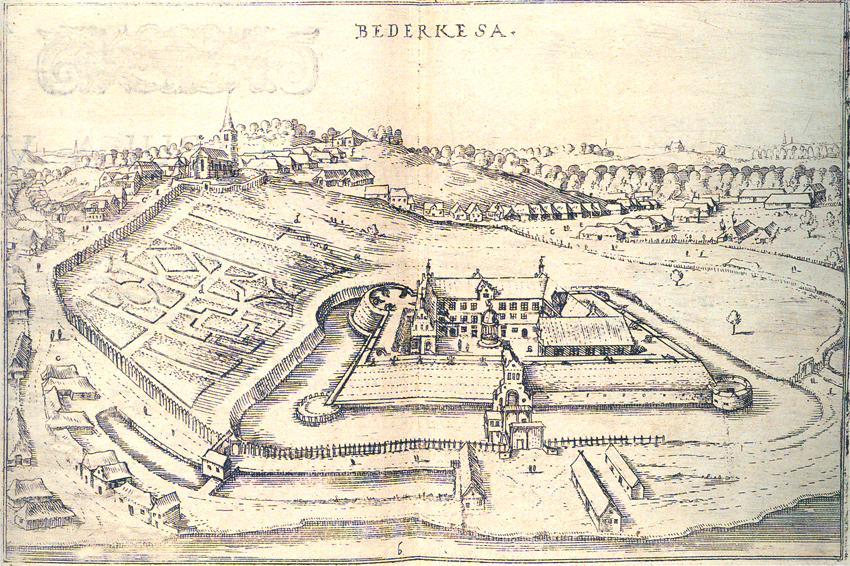 View of the village and the castle of Bederkesa, Germany. Copper engraving based on a drawing by Chrstian von Apen, published in the Dilich-Chronik from 1603.